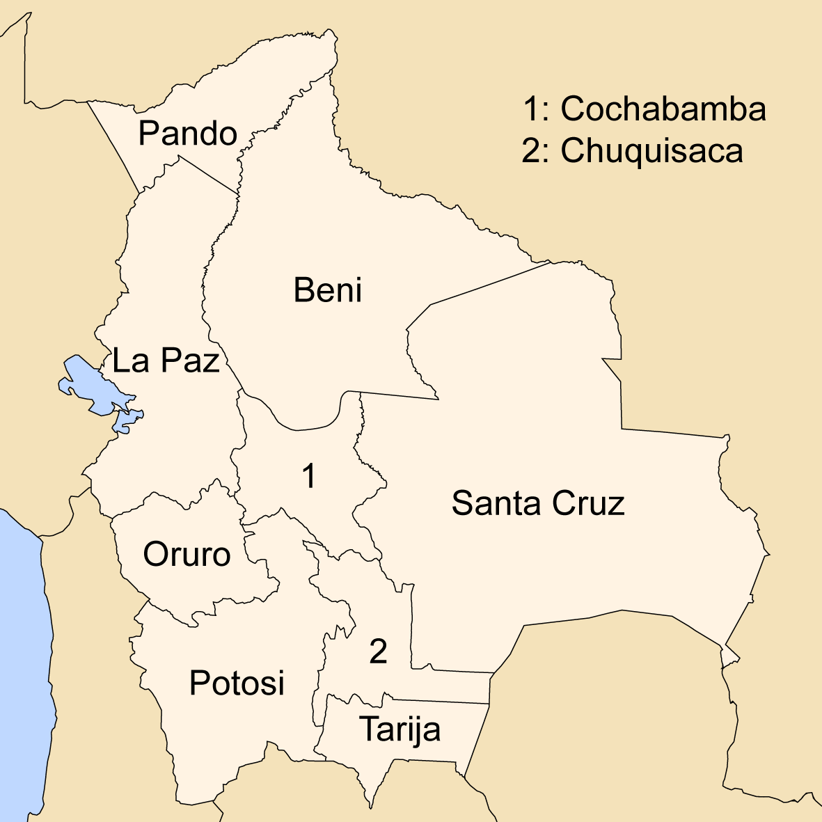 Map of Bolivia showing names departments